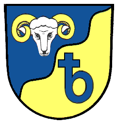 Coat of arms of Beuron